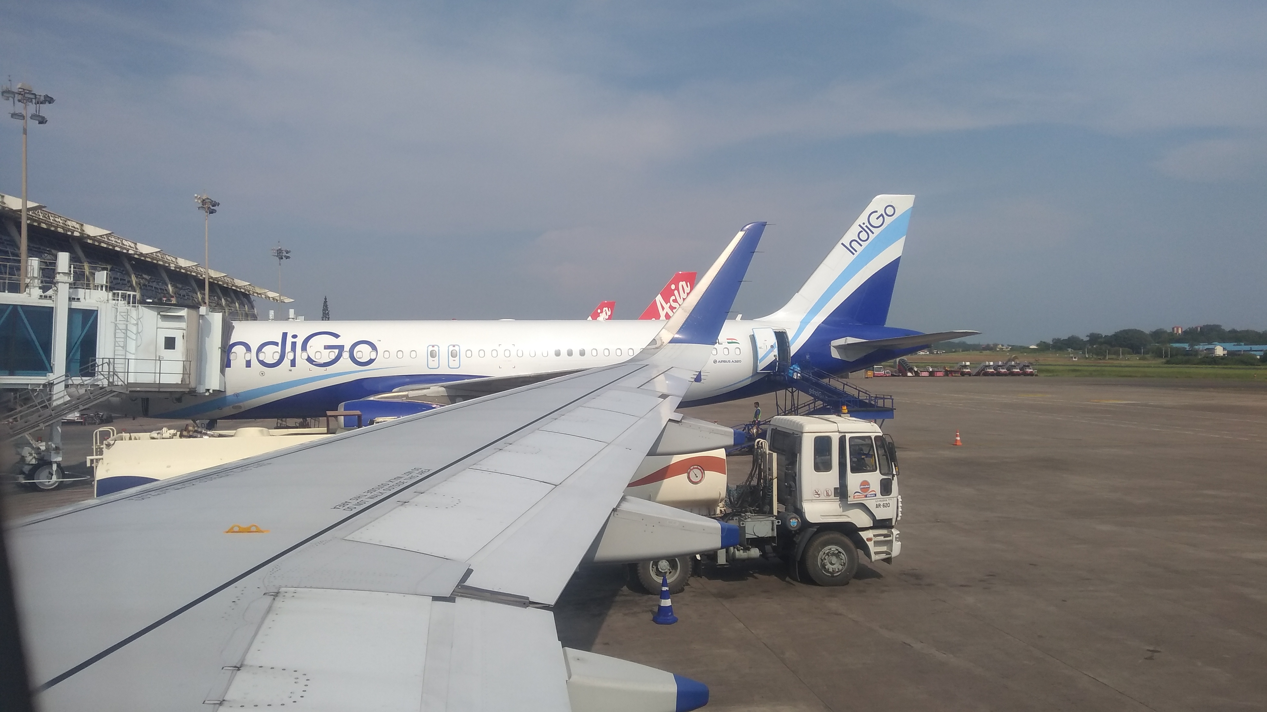 Scene at Dabolim airport. Photo by Frederick Noronha (FN). Creative Commons, attribution. +91-9822122436 or fredericknoronha2 at